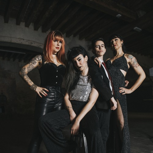 Photo of Anarchicks taken in 2019 by Inês Machado. Depicts (from left to right) Katari, Rita Sedas, Adam d'Armada Moreira, and Synthetique.